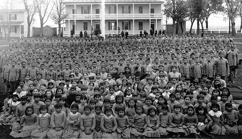 Pupils at Carlisle Indian Industrial School, Pennsylvania (c. 1900). Source: Frontier Forts